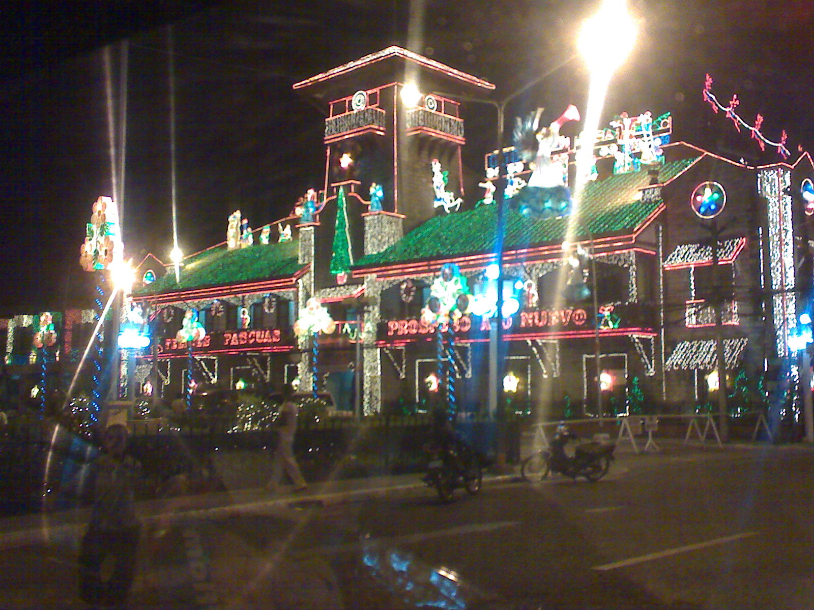 Zamboanga City Hall during the Christmas season.